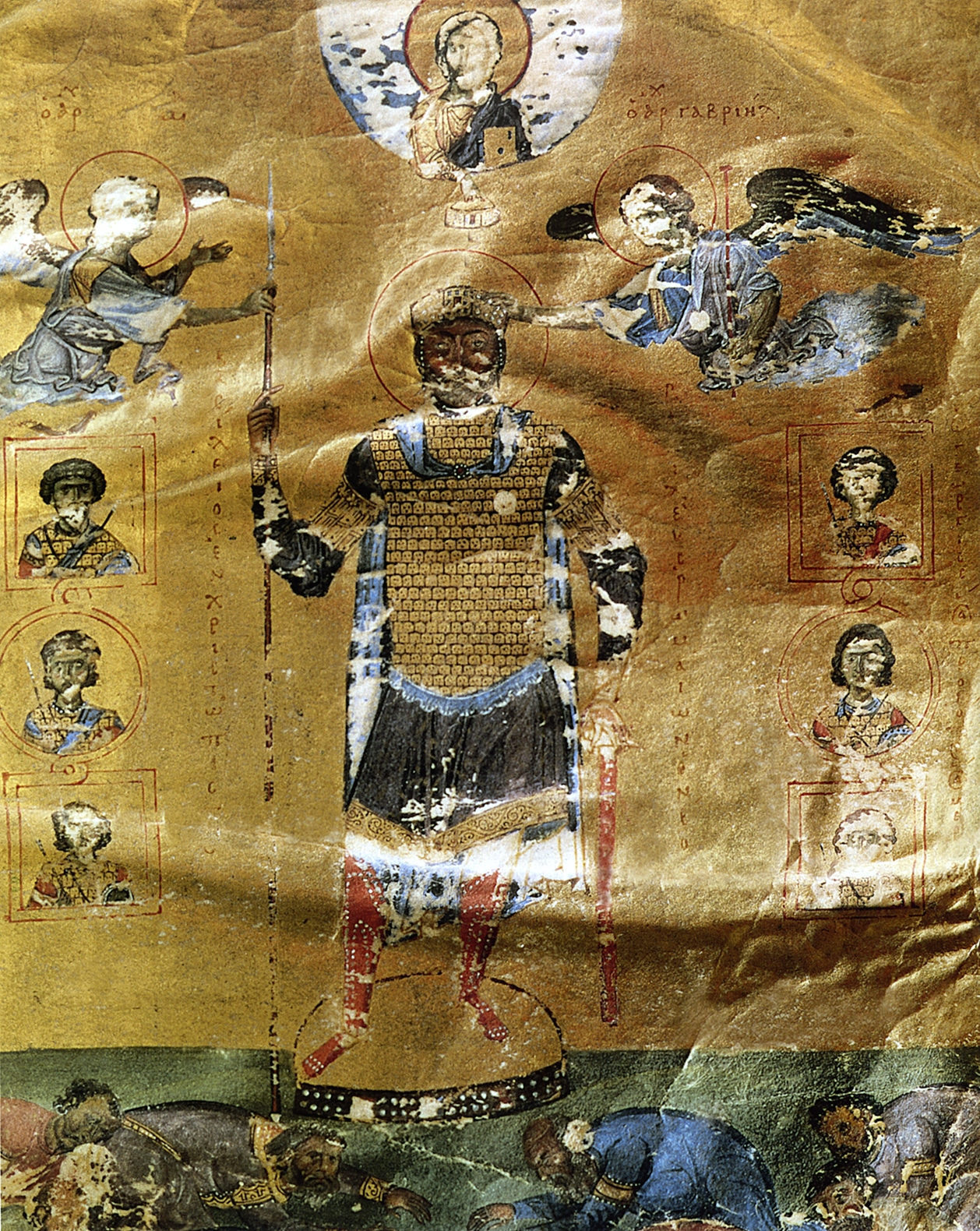 Miniature of Emperor Basil II in triumphal garb, exemplifying the Imperial Crown handed down by Angels. Psalter of Basil II (Psalter of Venice), BNM, Ms. gr. 17, fol. 3r, detail References: Paul Stephenson: A note on the portrait illumination of Basil II in his psalter